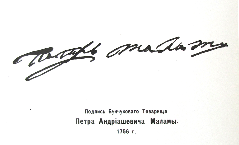 Signature of Petr Andriashevich Malama